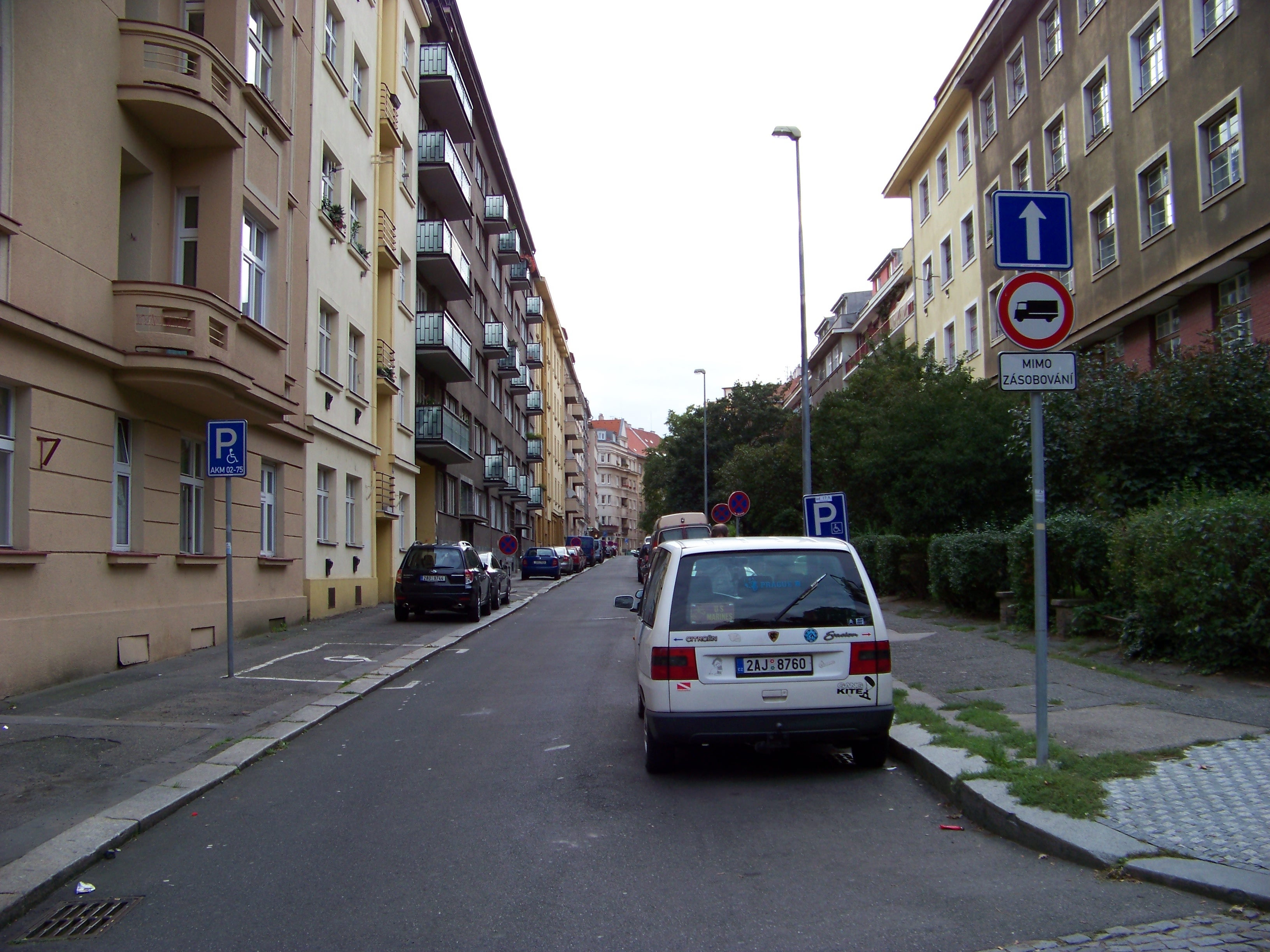 Prague-Vršovice, the Czech Republic. Bulharská street.